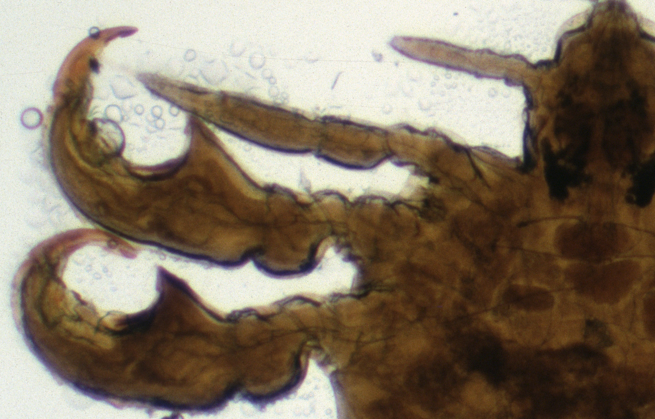 Fresh wet mount from pubic combing. Pathological and histological images courtesy of Ed Uthman at flickr.